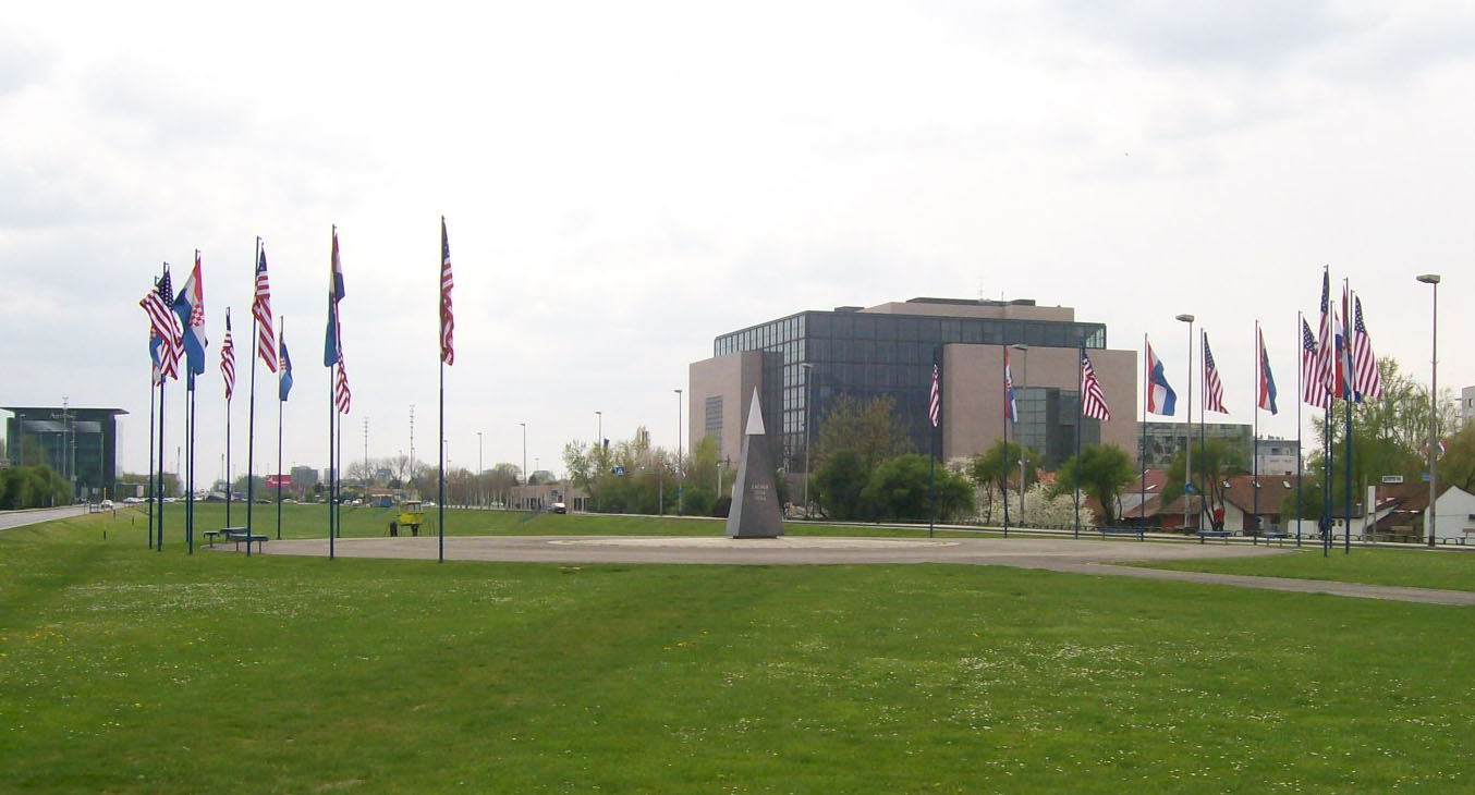 Flags of Croatia and USA during the visit of President Bush to Croatia